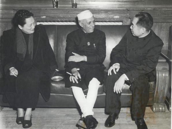 Jawaharlal Nehru in Peking with Chou En-Lai and Madam Sun Yat-sen, 1954